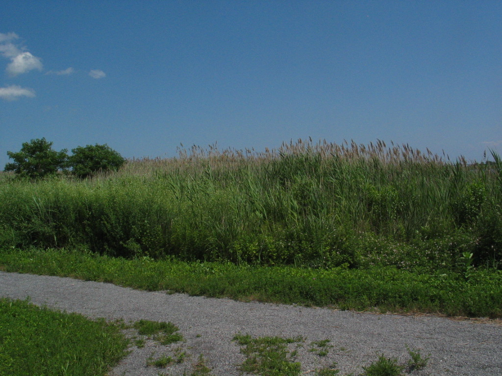 Photo by Greogry Kats (myself) Salt Marsh Nature Center, located in Marine Park neighborhood of Southern Brooklyn, NY. Typical landscapes: weed, grass, water, walkways.